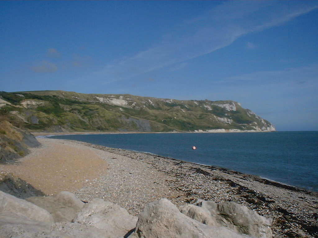 View of Ringstead Bay and White Nothe, Dorset, England. Photograph by Jonathan Bowen, 8 August 2001.